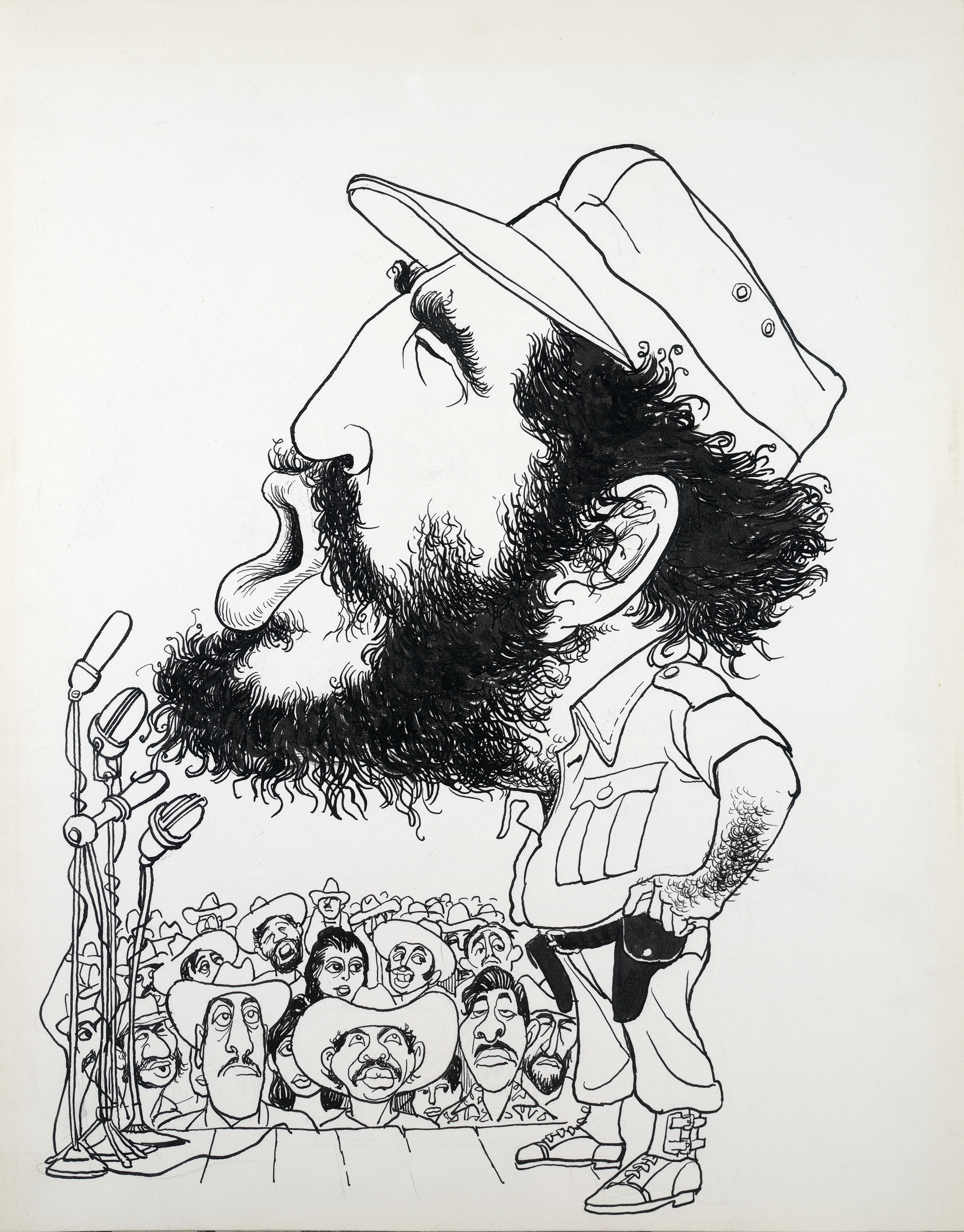 Caricature of a hirsute Fidel Castro in his customary military dress on a stage with microphones, exhorting the masses.